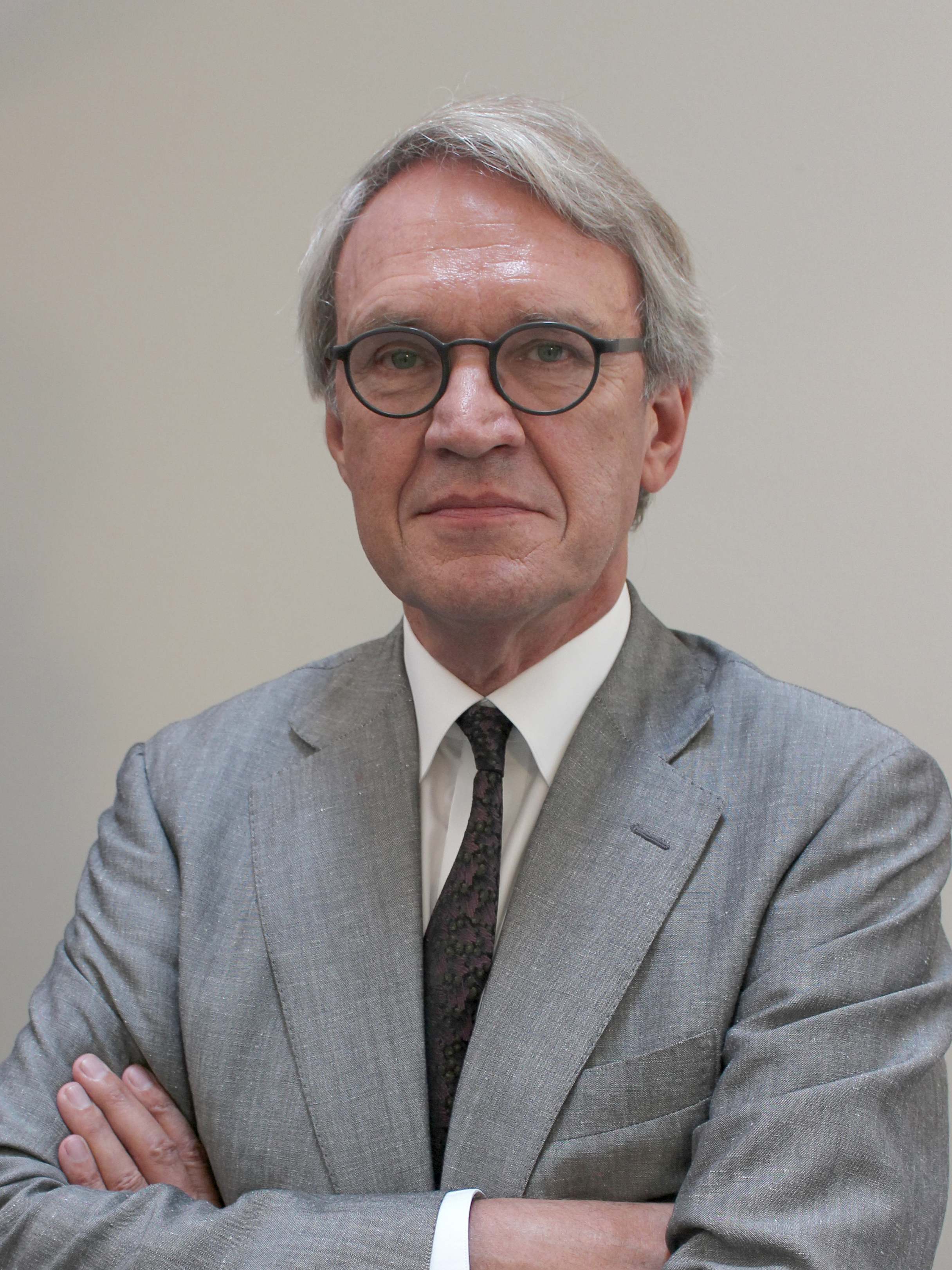 Cees Renckens